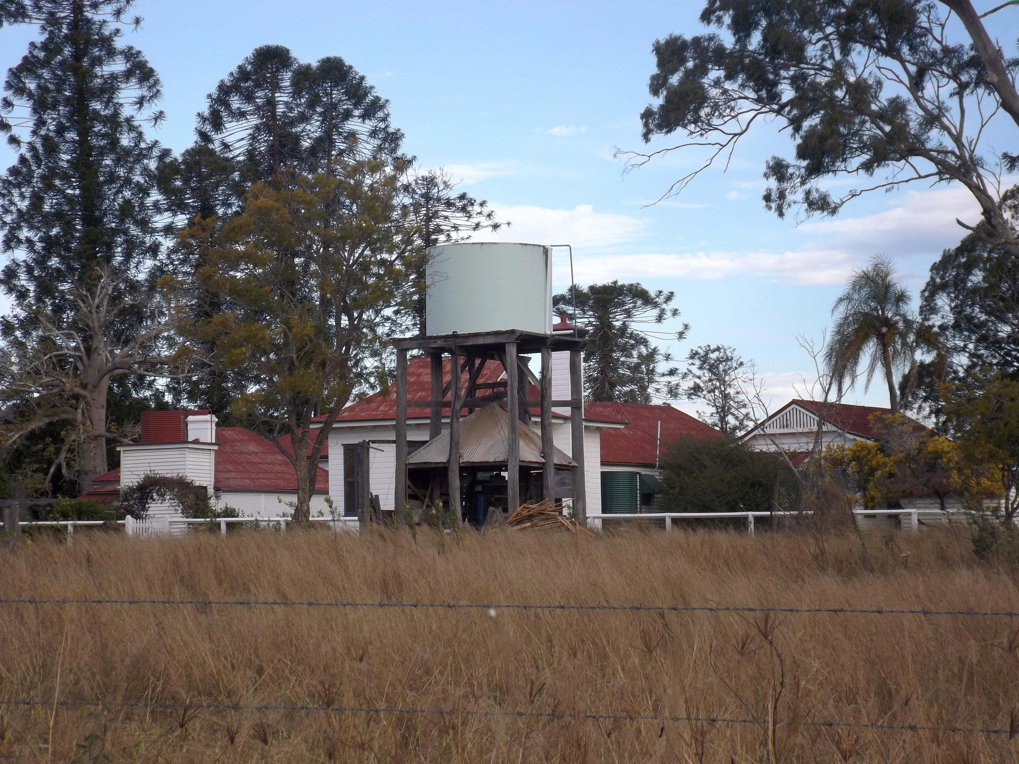 Photo of Franklyn Vale Homestead at Mount Mort, Ipswich, Queensland, Australia.